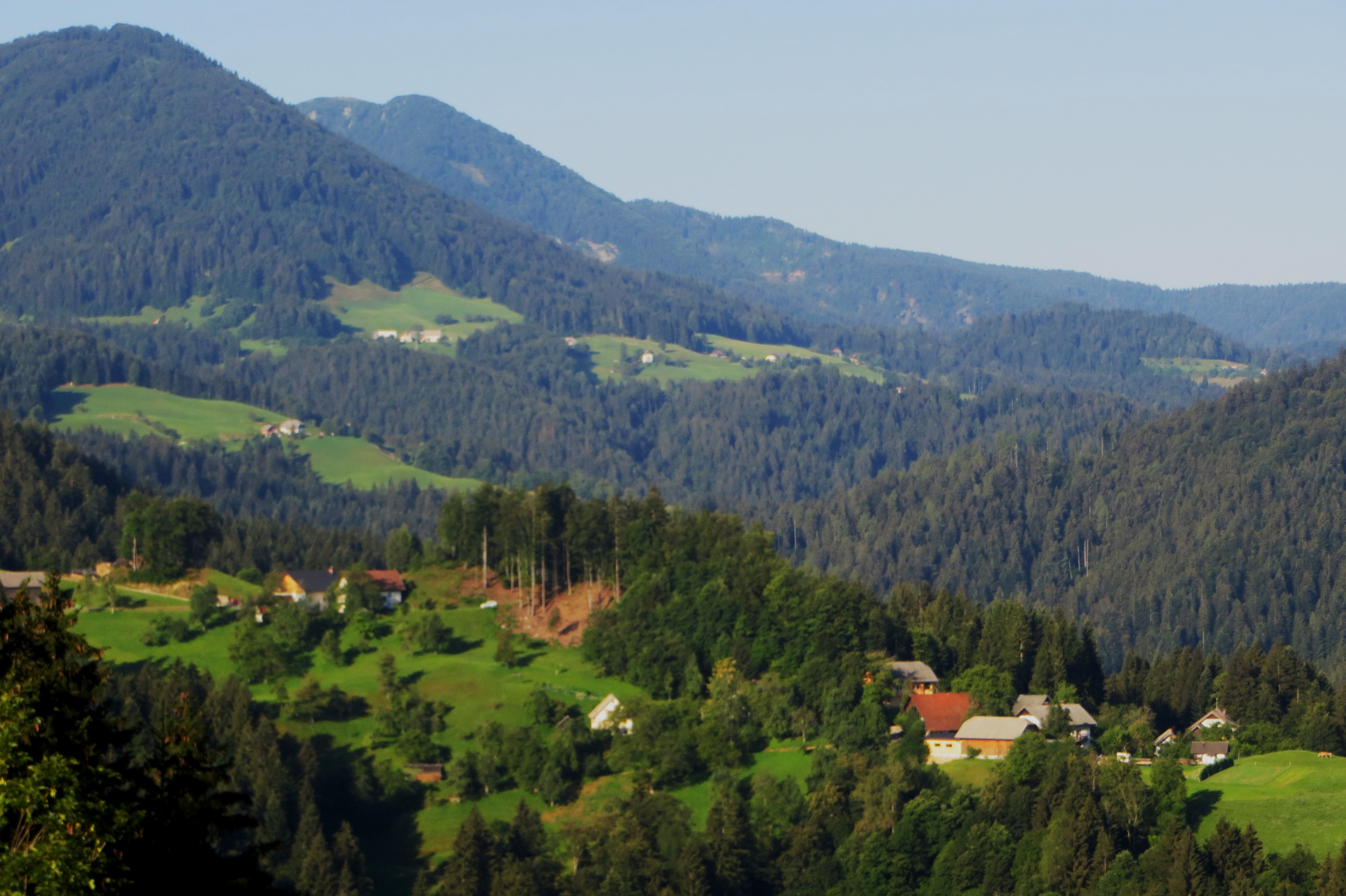 Ojstri Vrh, Municipality of Železniki, Slovenia